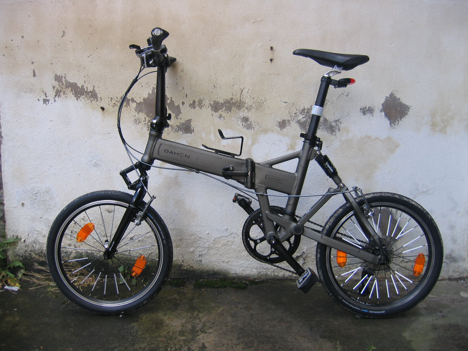 Dahon Jetstream P8 (2009). 20" folding bicycle.